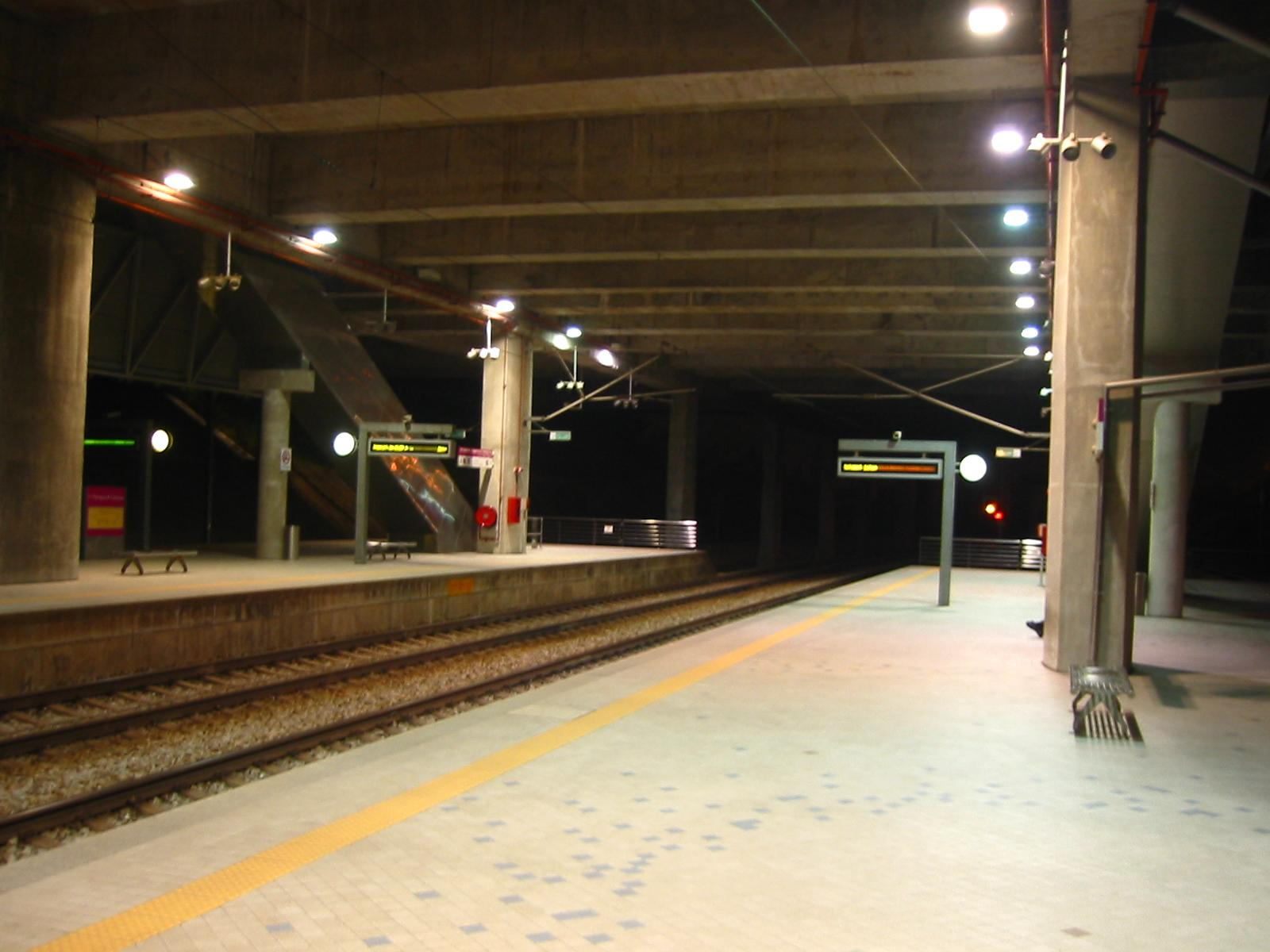 This is the Putrajaya/Cyberjaya Express Rail Link Station at night.